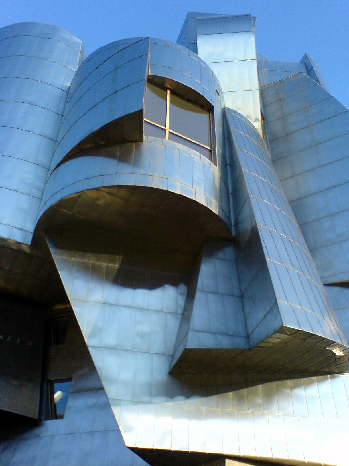 Weisman Art Museum, University of Minnesota